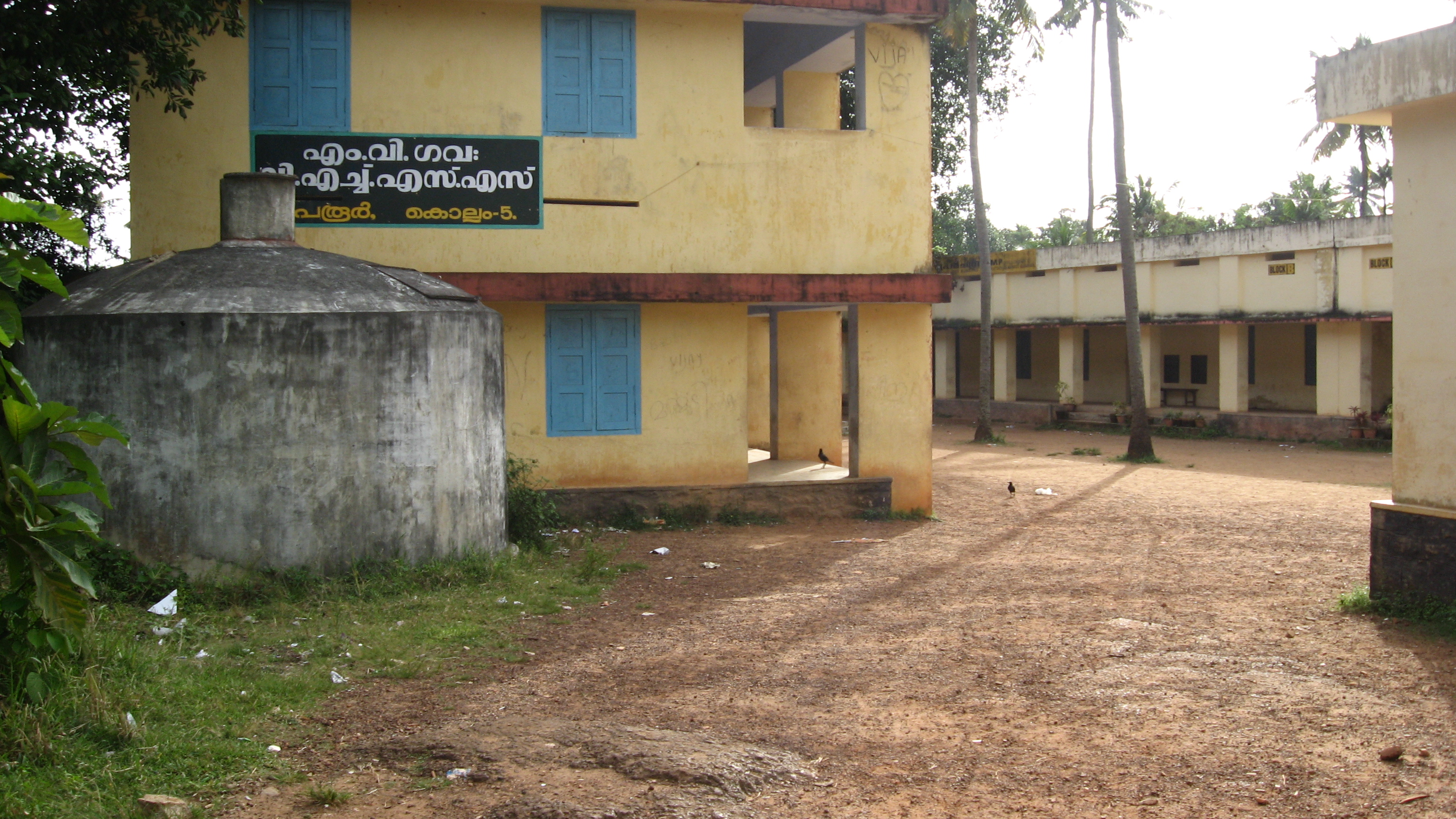 Meenakshi Vilasam Government Vocational Higher Secondary School,Perror